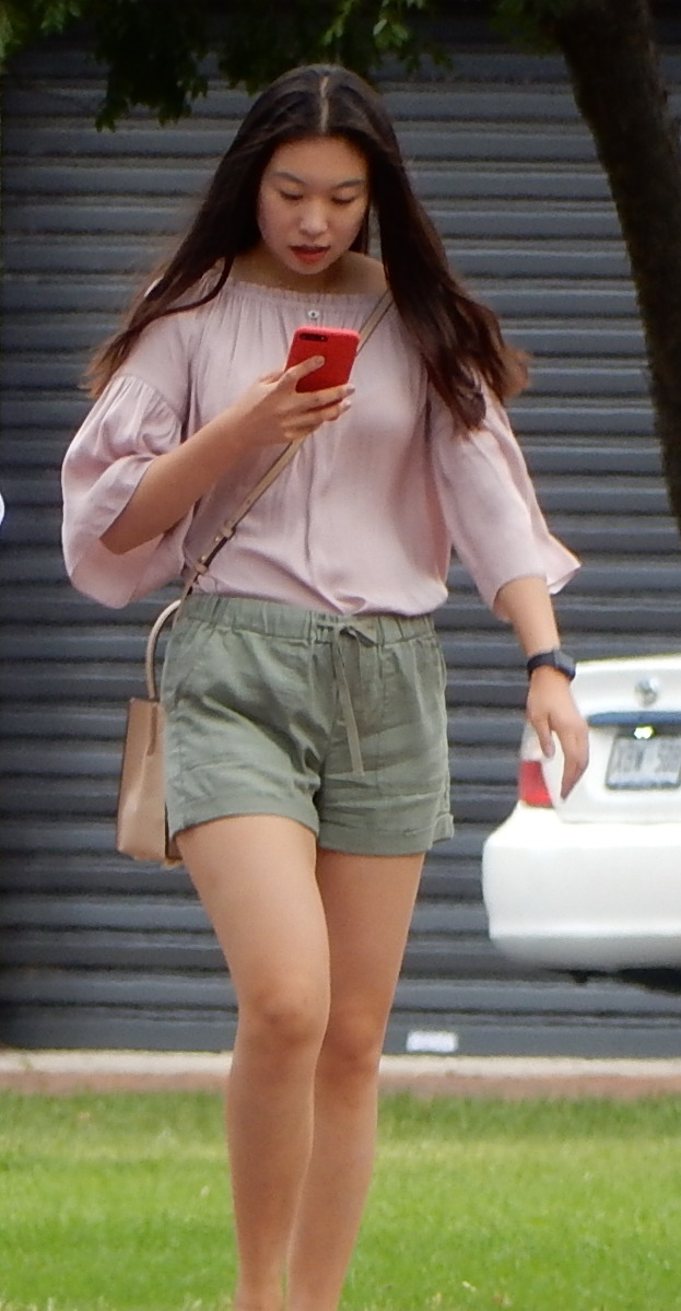 Ignoring Each Other